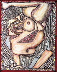 Jogen Chowdhury- Image -X.